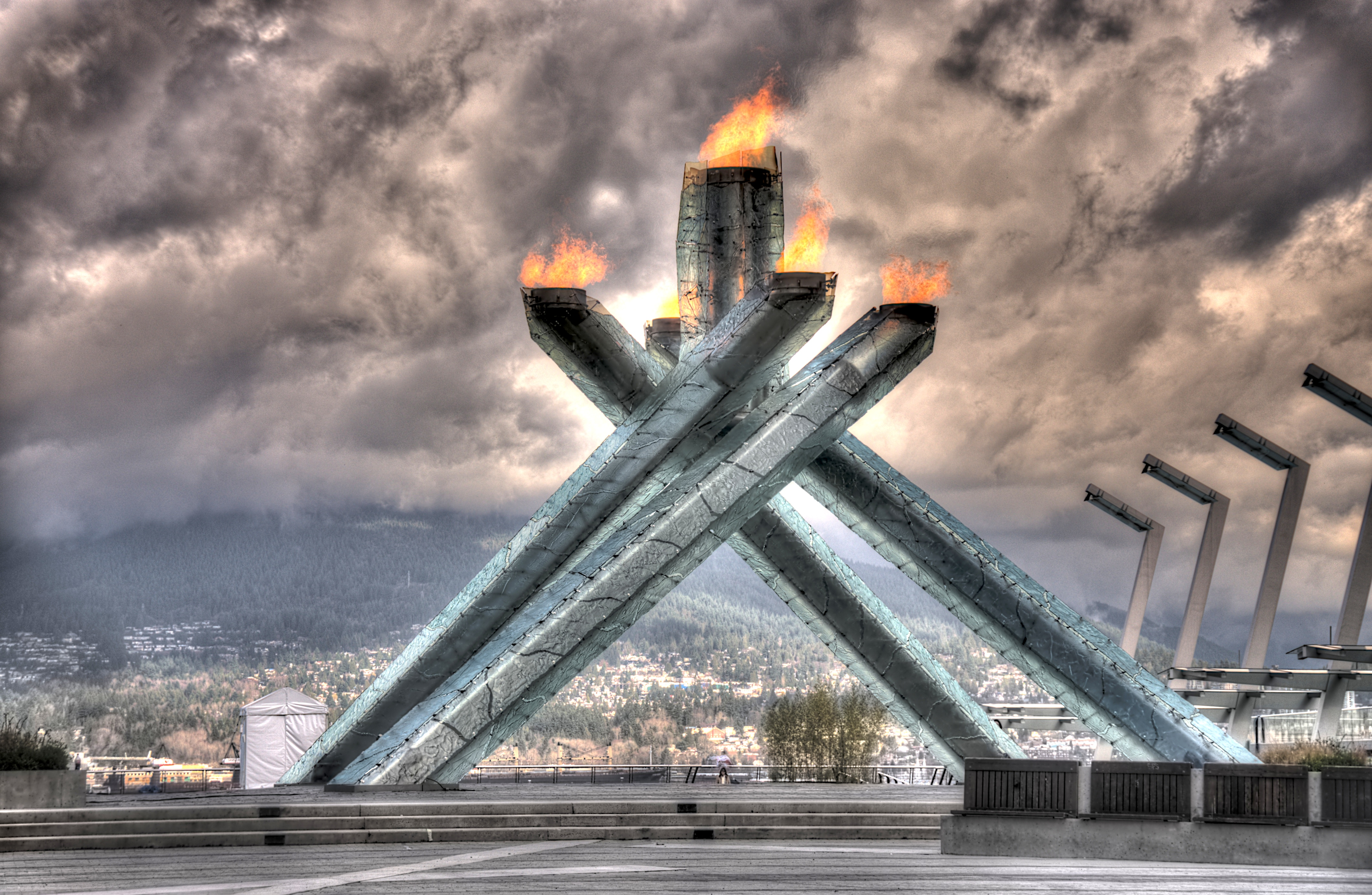 The Olympic Cauldron as shot through the original fence.